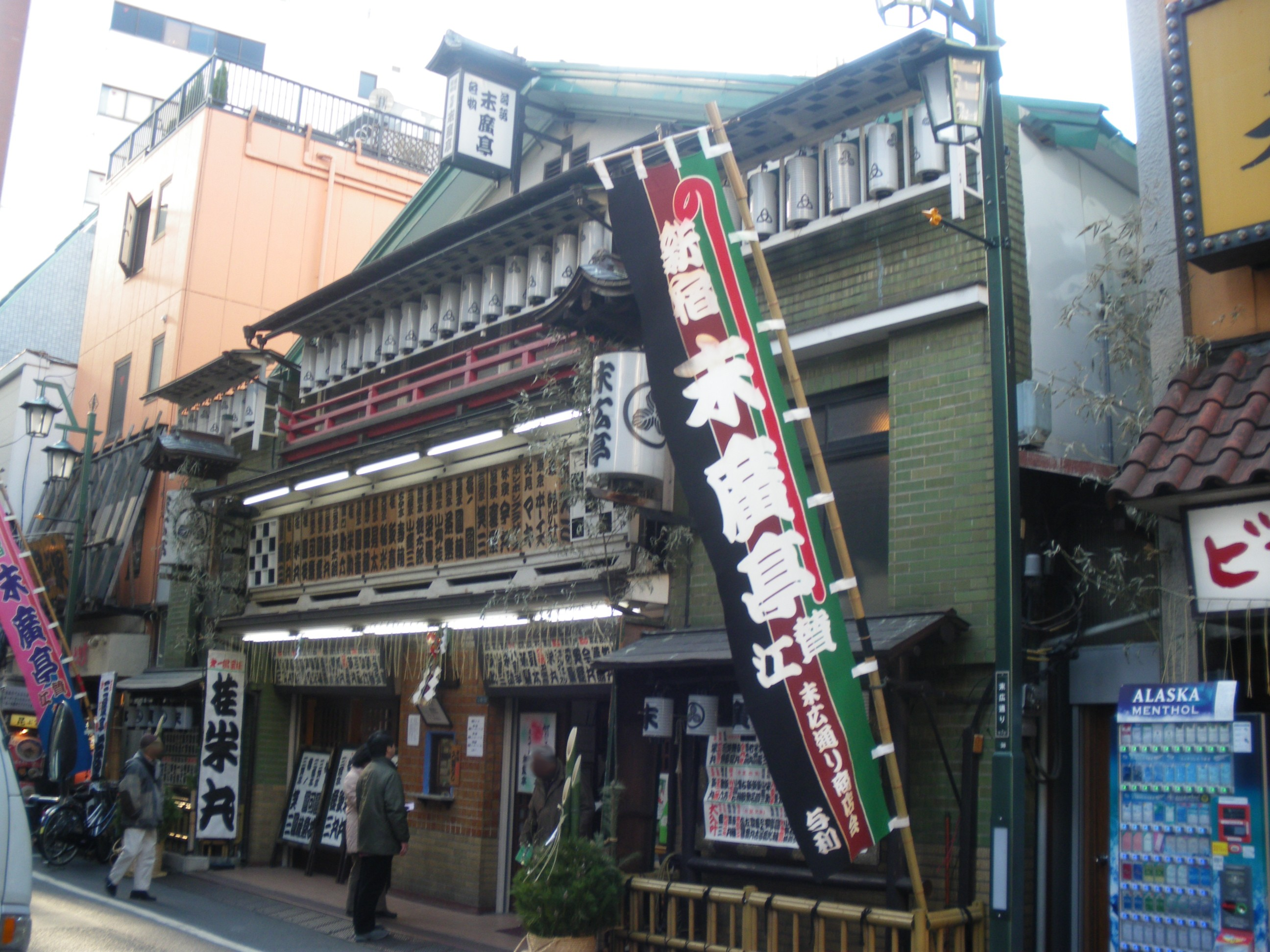 photo of Shinjuku suehirotei.Shinjuku suehirotei is a famous vaudeville theater in Tokyo. It holds many rakugo events.